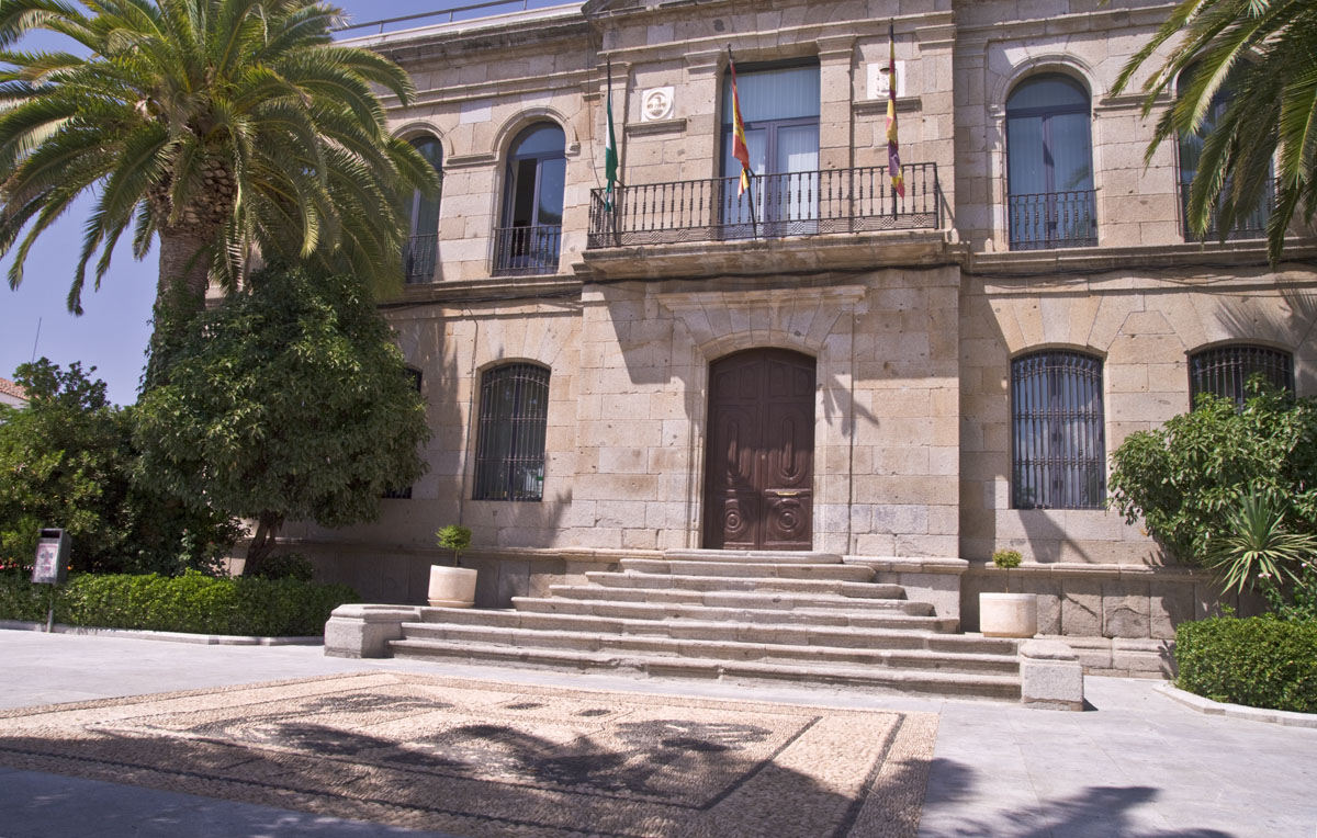 Ayuntamiento de Belálcazar